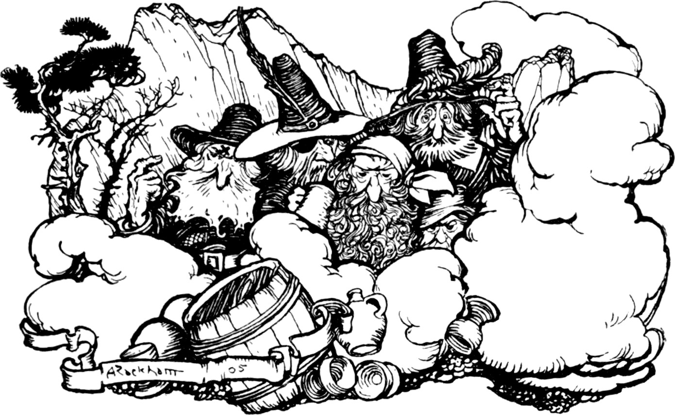 Image from Rip Van Winkle